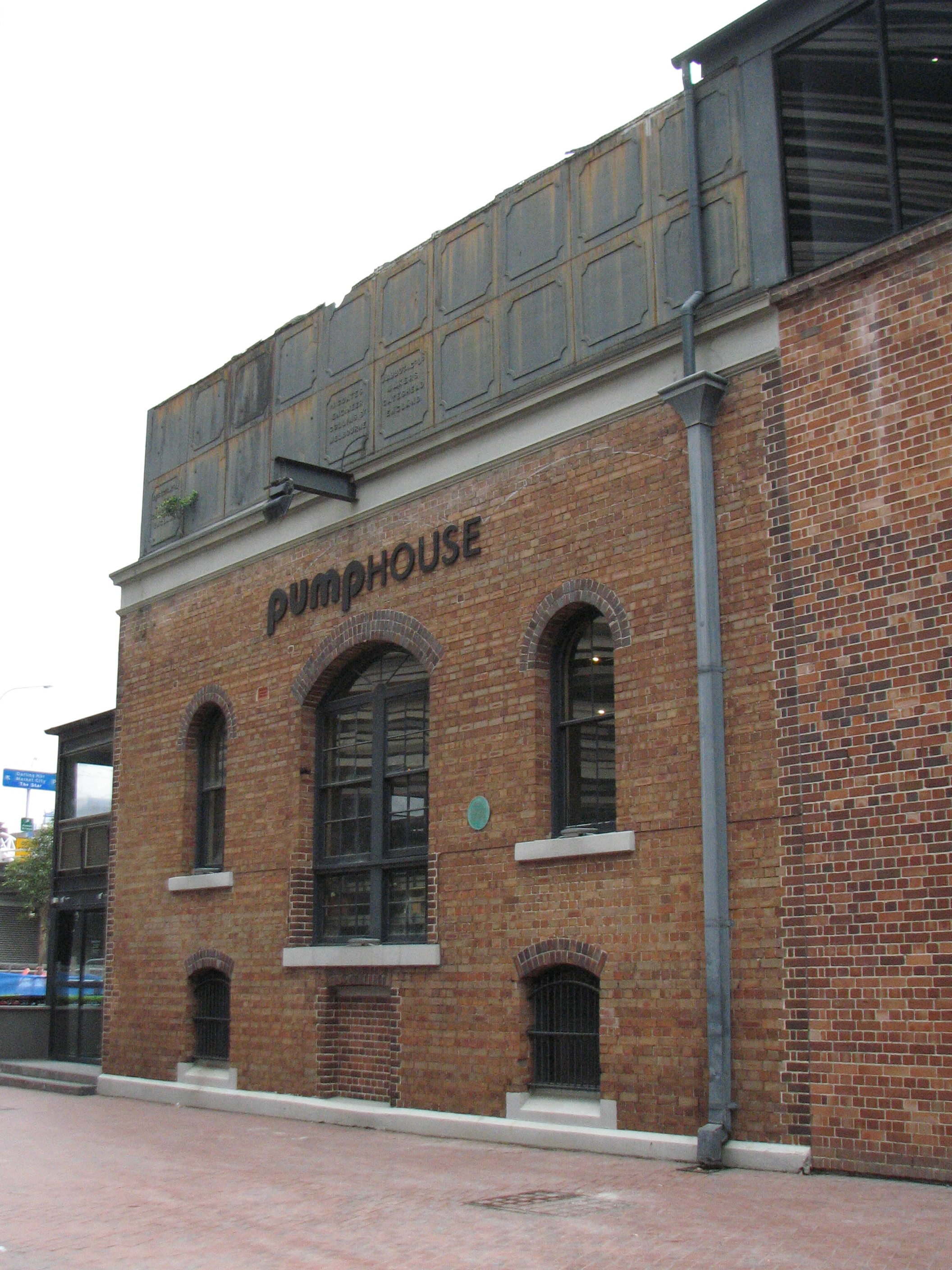 Hydraulic Pump Station, 17 Little Pier Street, Haymarket, NSW is listed on the New South Walers State Heritage Register